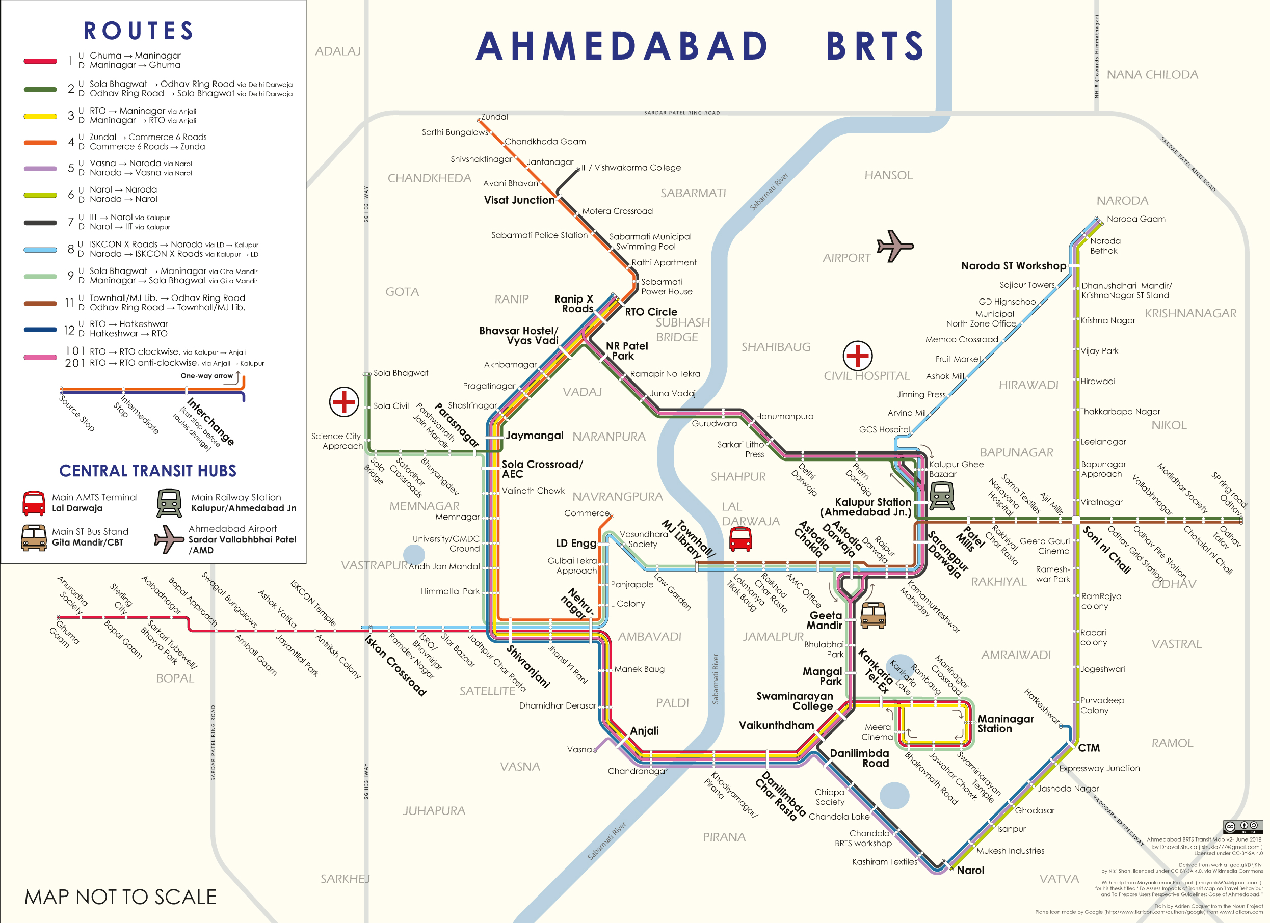 This file is a color coded route map of the Ahmedabad BRTS. Information is to the best of my knowledge as of June 2018. The Ahmedabad BRTS does not use colors on its routes, but I have used them in the map for sake of legibility. This map has not been produced by BRTS or anyone or any institute affiliated with it, but solely as a hobby. If you require a brochure version of this map, please email at